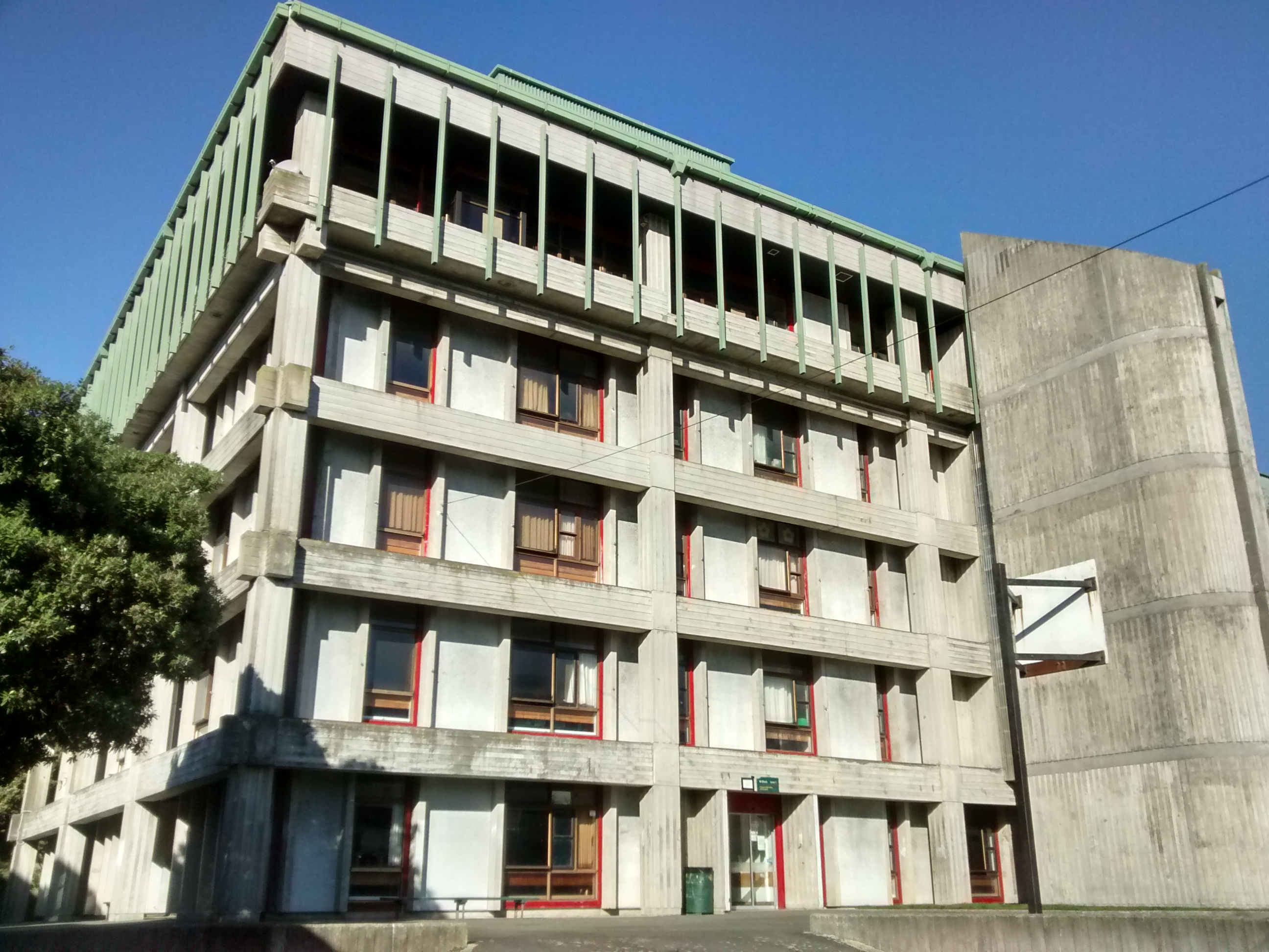 The main block of Wellington High School (taken from Taranaki Street).